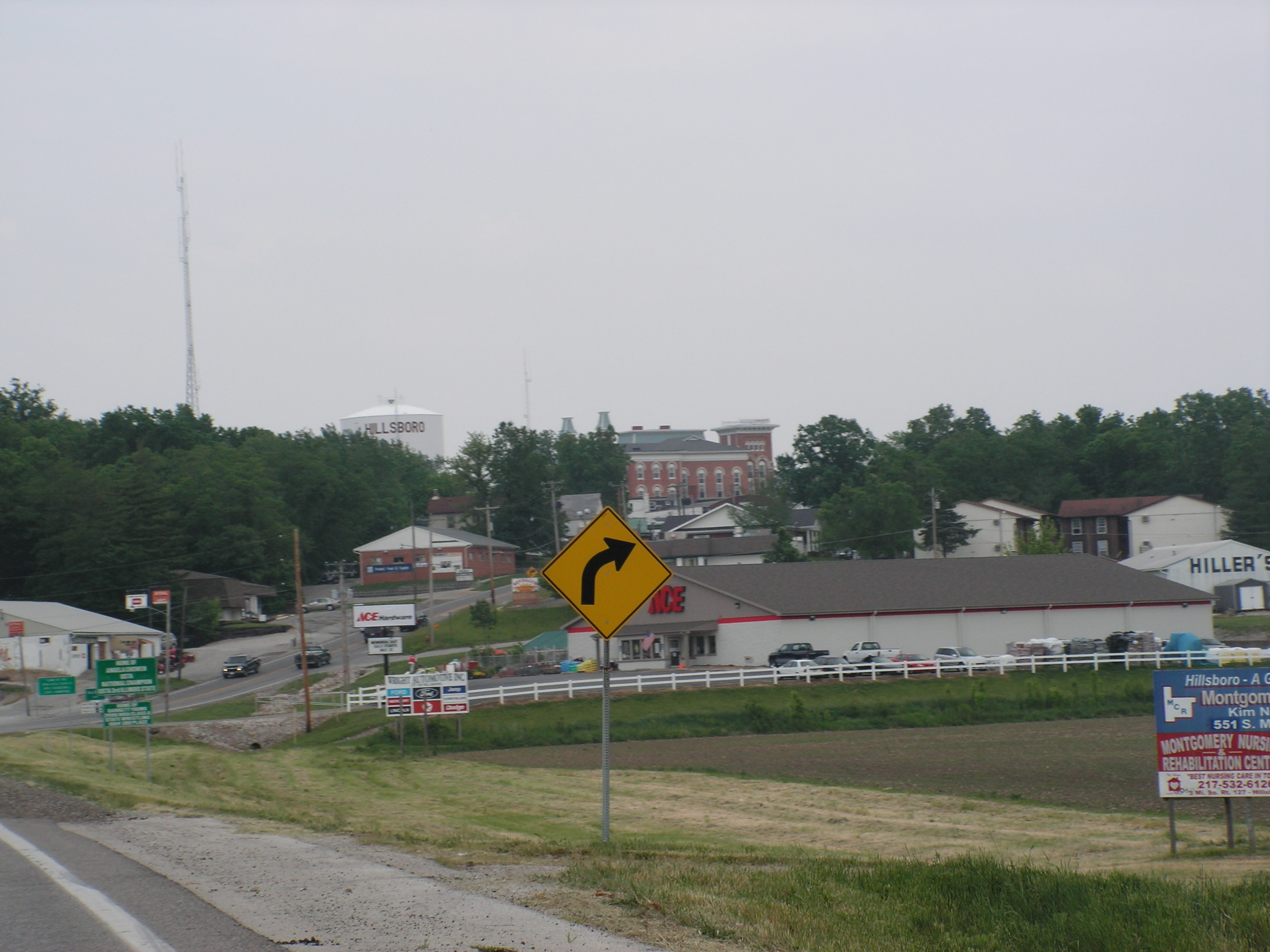 Entering Hillsboro, Illinois from the northwest on Illinois Route 16 (Springfield Road)